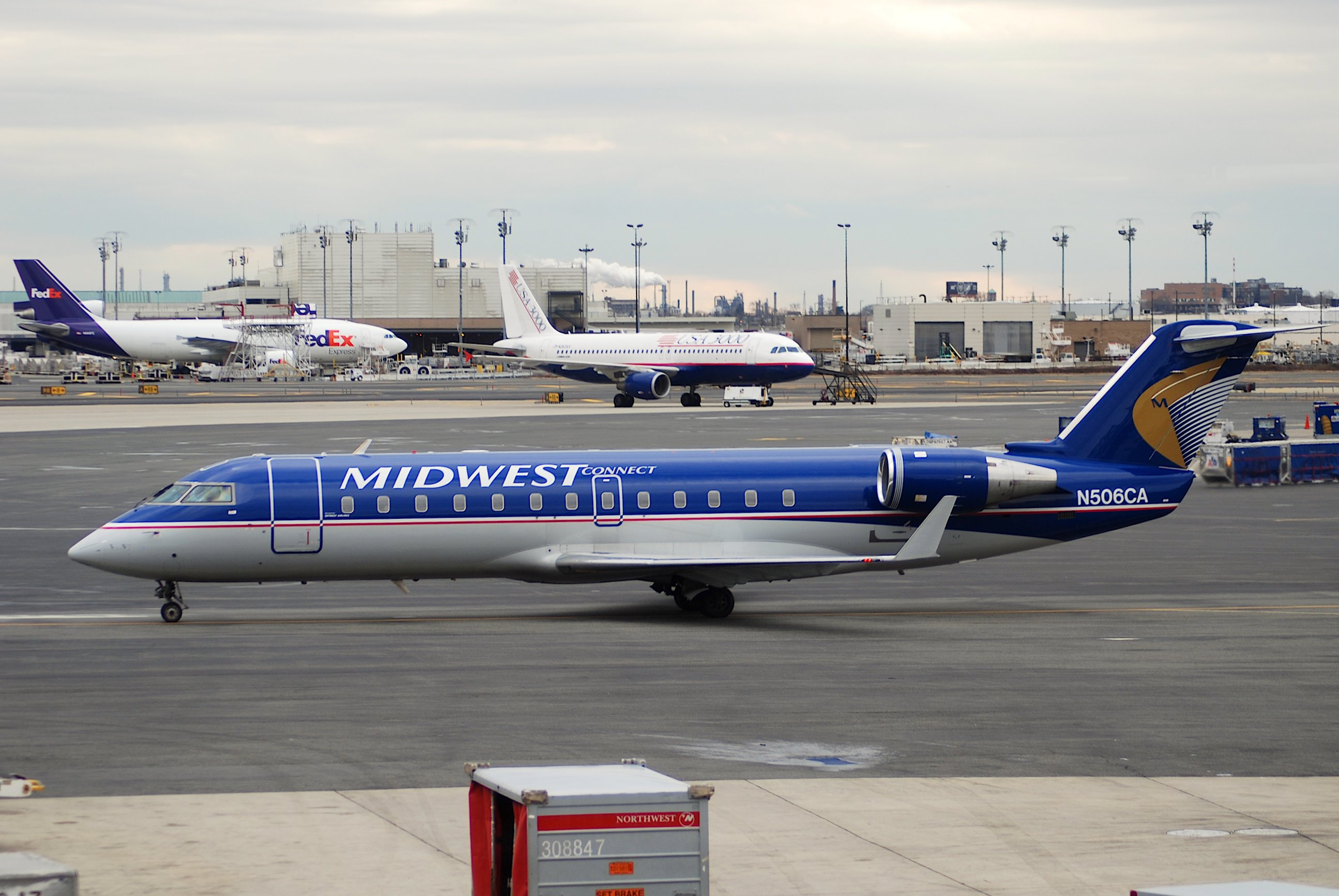 Midwest Connect Canadair CRJ-200; N506CA@EWR;07.02.2008/499bp